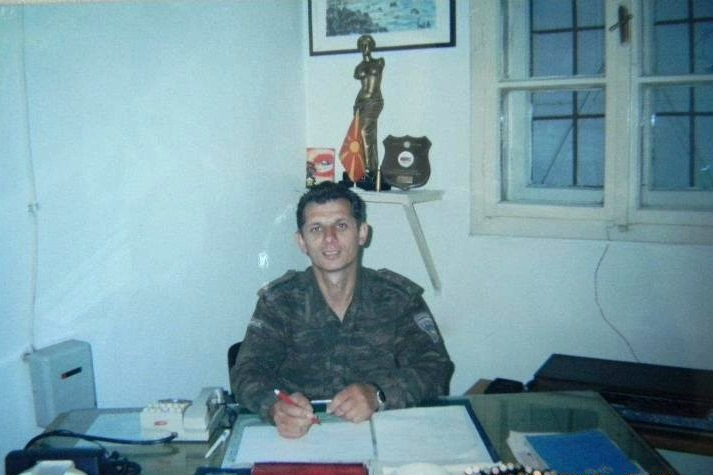 Aco Stojanovski (Ацо Стојановски), commander of the Macedonian police at the Battle for Radusha, during the Macedonian Conflict in 2001.